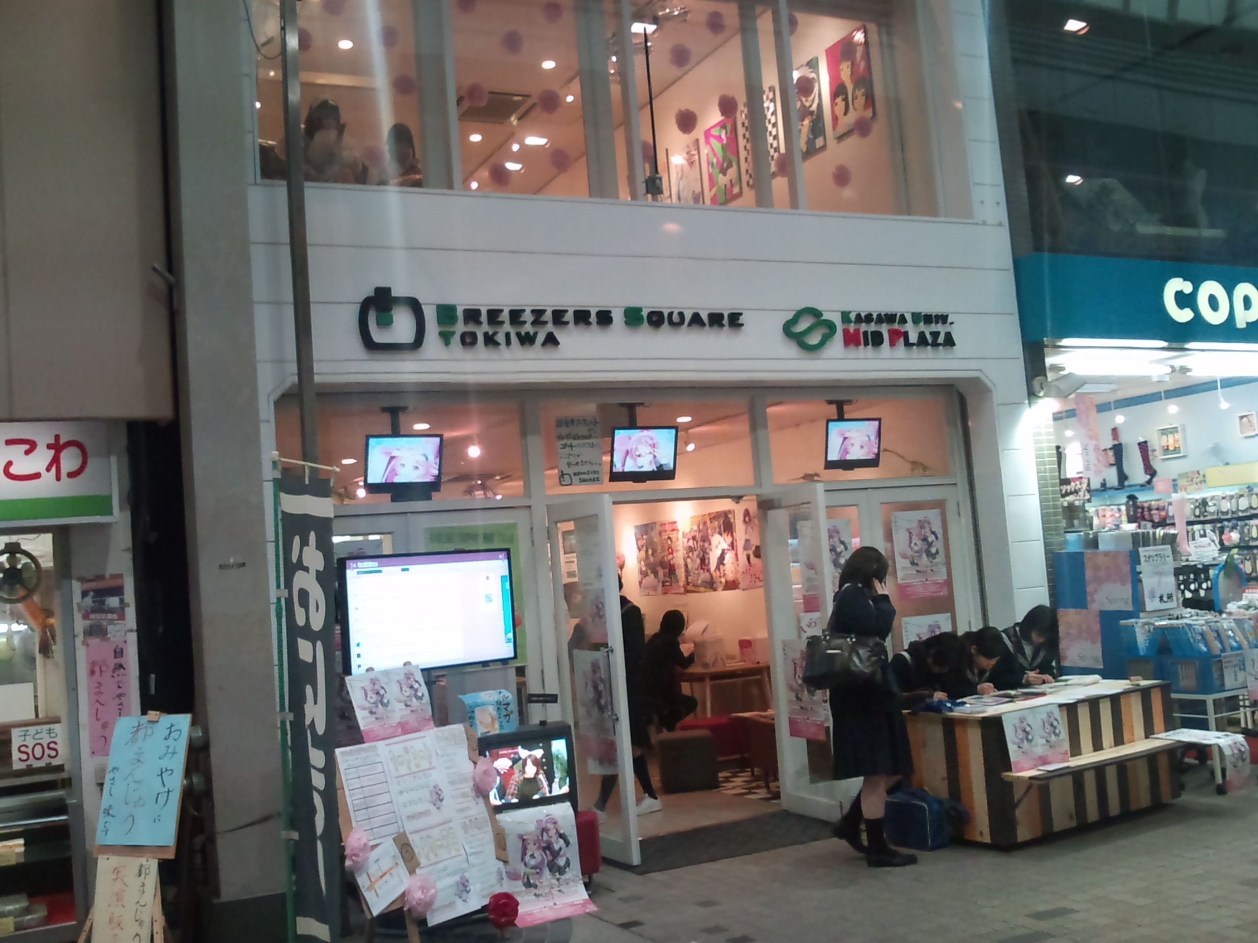 Breezers Square tokiwa and Kagawa university MID PLAZA in Tokiwa-chō shōtengai, Takamatsu,Kagawa.